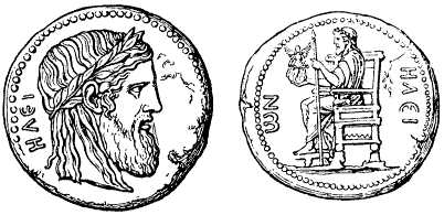 Coin of Elis illustrating the Olympian Zeus (Nordisk familjebok).